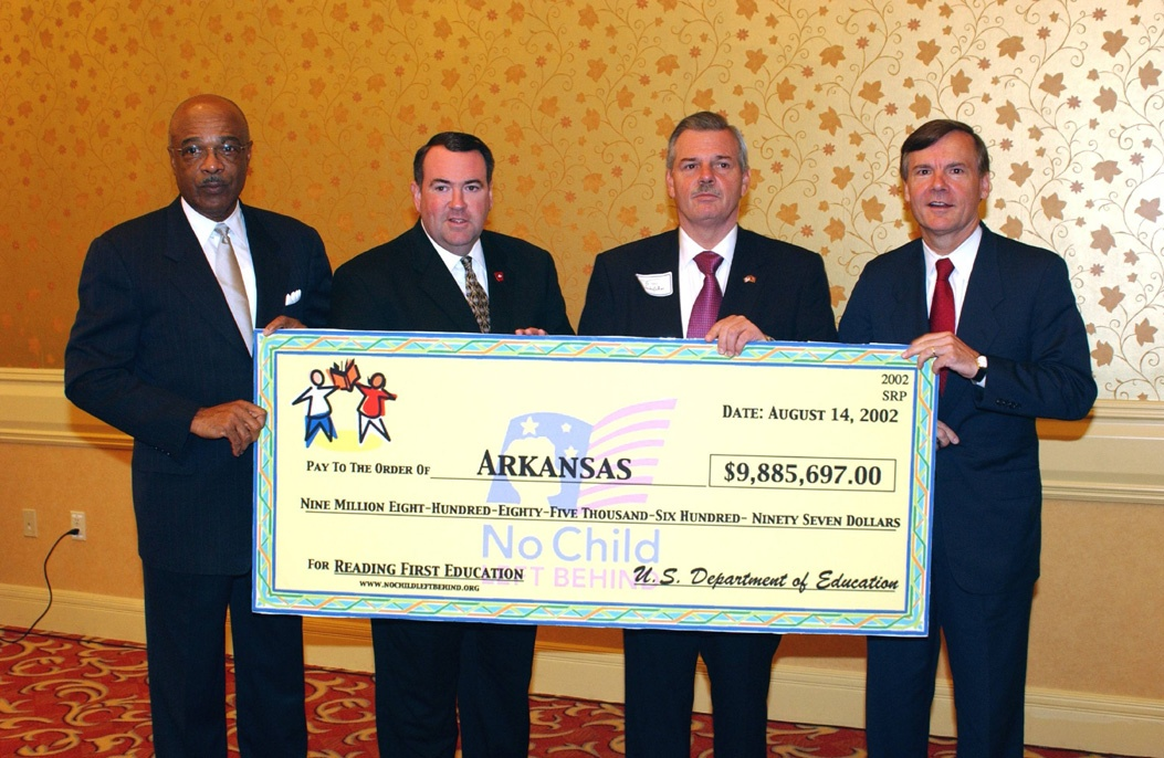 Original caption: "Secretary of Education Rod Paige recently presented a $9.8 million check to Governor Mike Huckabee, Lt. Governor Win Rockefeller, and Senator Tim Hutchinson for the first year of Arkansas' Reading First program. As a member of the Senate Education Working Group, Hutchinson helped write the critical elements of President Bush's No Child Left Behind Act, which created the Reading First Program."